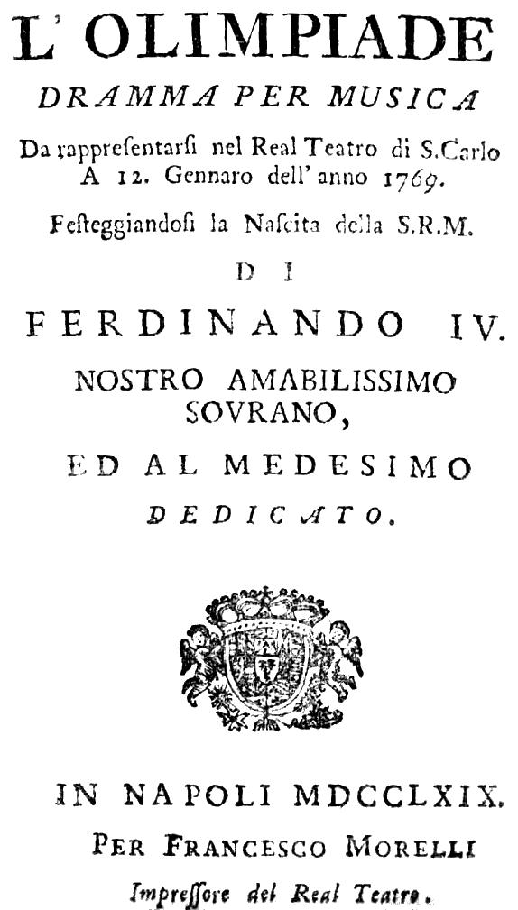 Pasquale Cafaro - Olimpiade - titlepage of the libretto - Neapel 1769